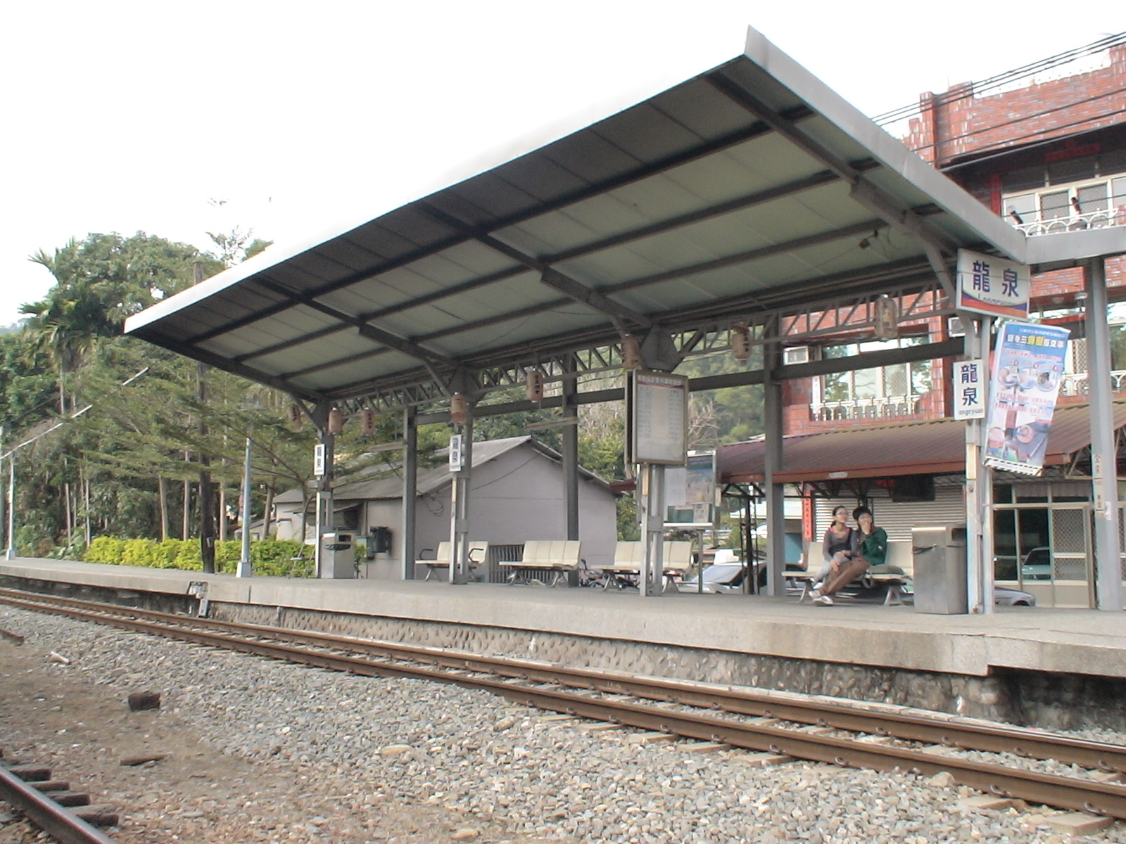 Longcyuan Station, Jiji, Nantou, Taiwan.